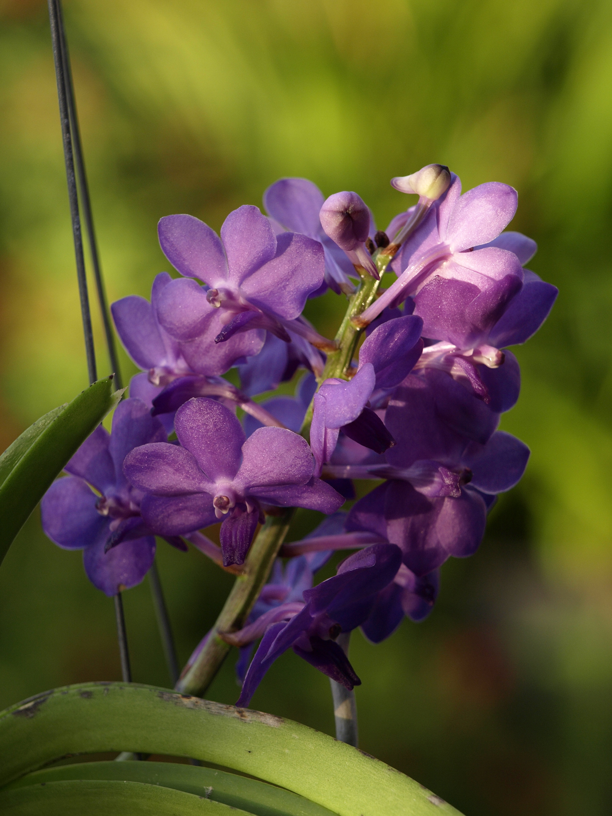 Vascostylis Pine Rivers 'Redland Sky' South Miami, Florida, USA